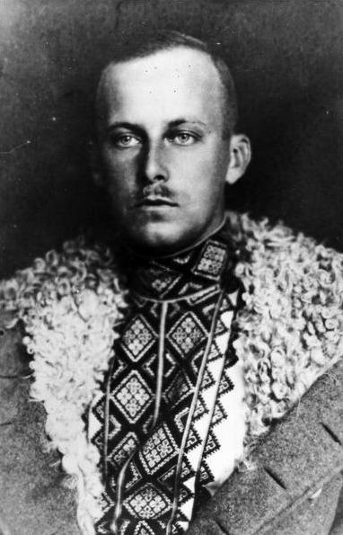 Picture of Wilhelm Hapsburg (Vasyl Vyshyvanyi)